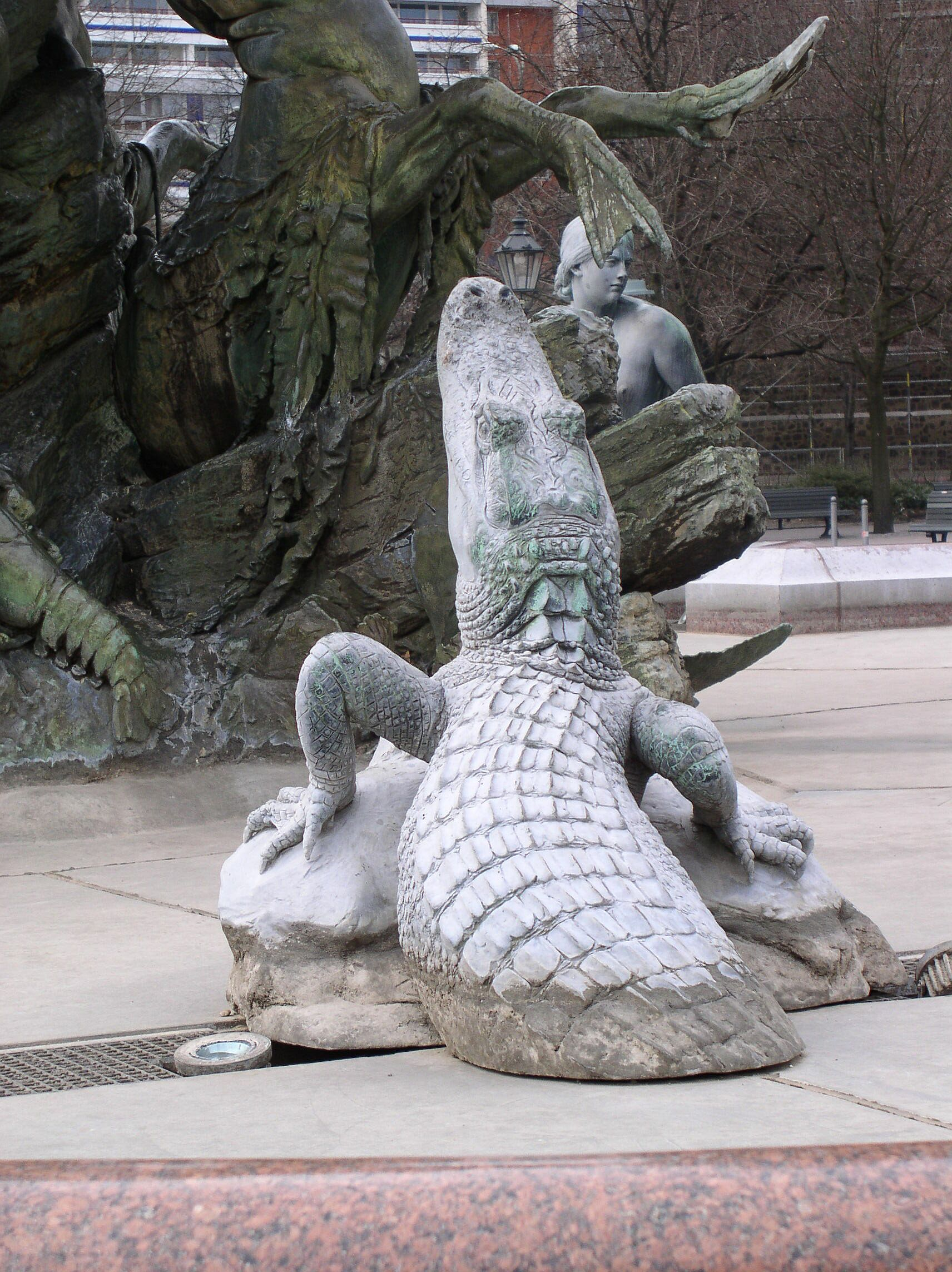 Crocodile statue at the Neptun fountain in Berlin